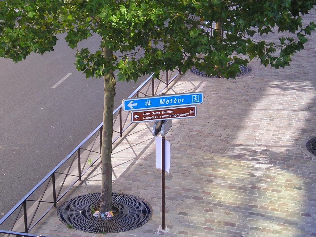 On the avenue des Terroirs de France, a street sign points the pedestrian direction to the Cour Saint-Émilion station and the Paris Métro Line 14 under its project name "Météor". This sign has since been replaced.